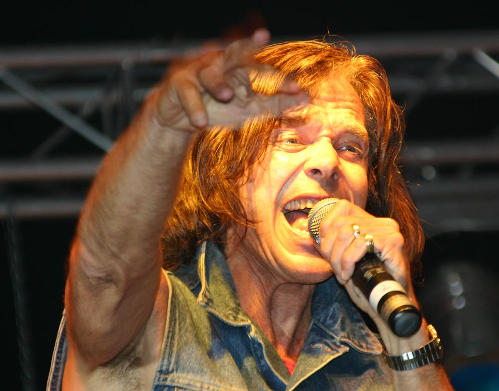 Jürgen Drews